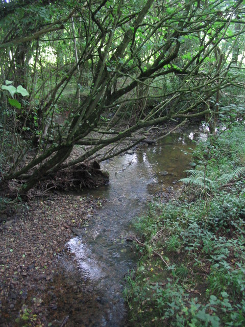 Headwaters of the River Brue A view looking to the northeast along one of the headwaters of the River Brue, from the small bridge on the lane to Cooks Farm.